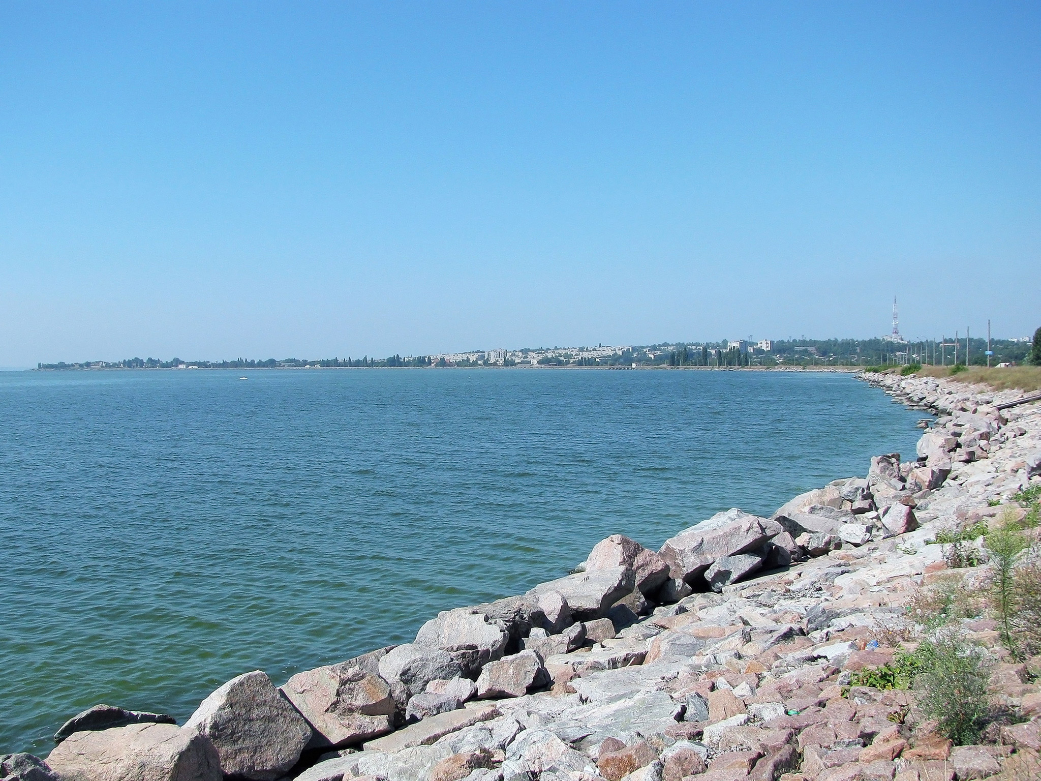 Nikopol quay in the Novopavlovka area, Ukraine